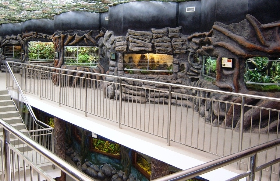 New building with predator animals in Zamość Zoo (inside)